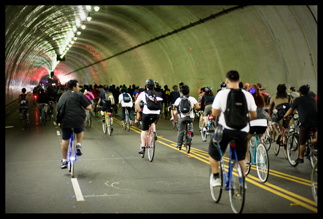 going through a tunnel in downtown Los Angeles